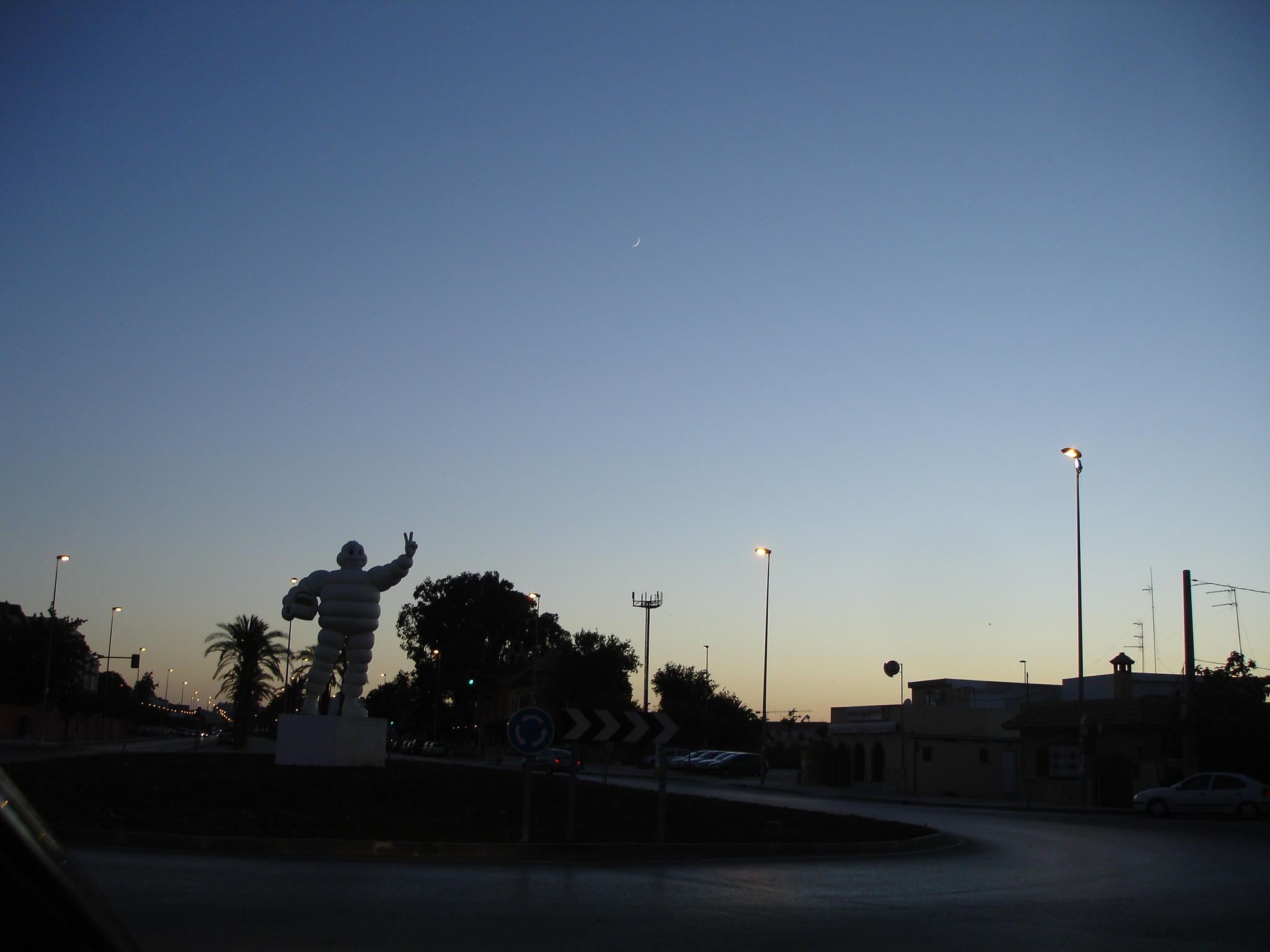 Michelin roundabout